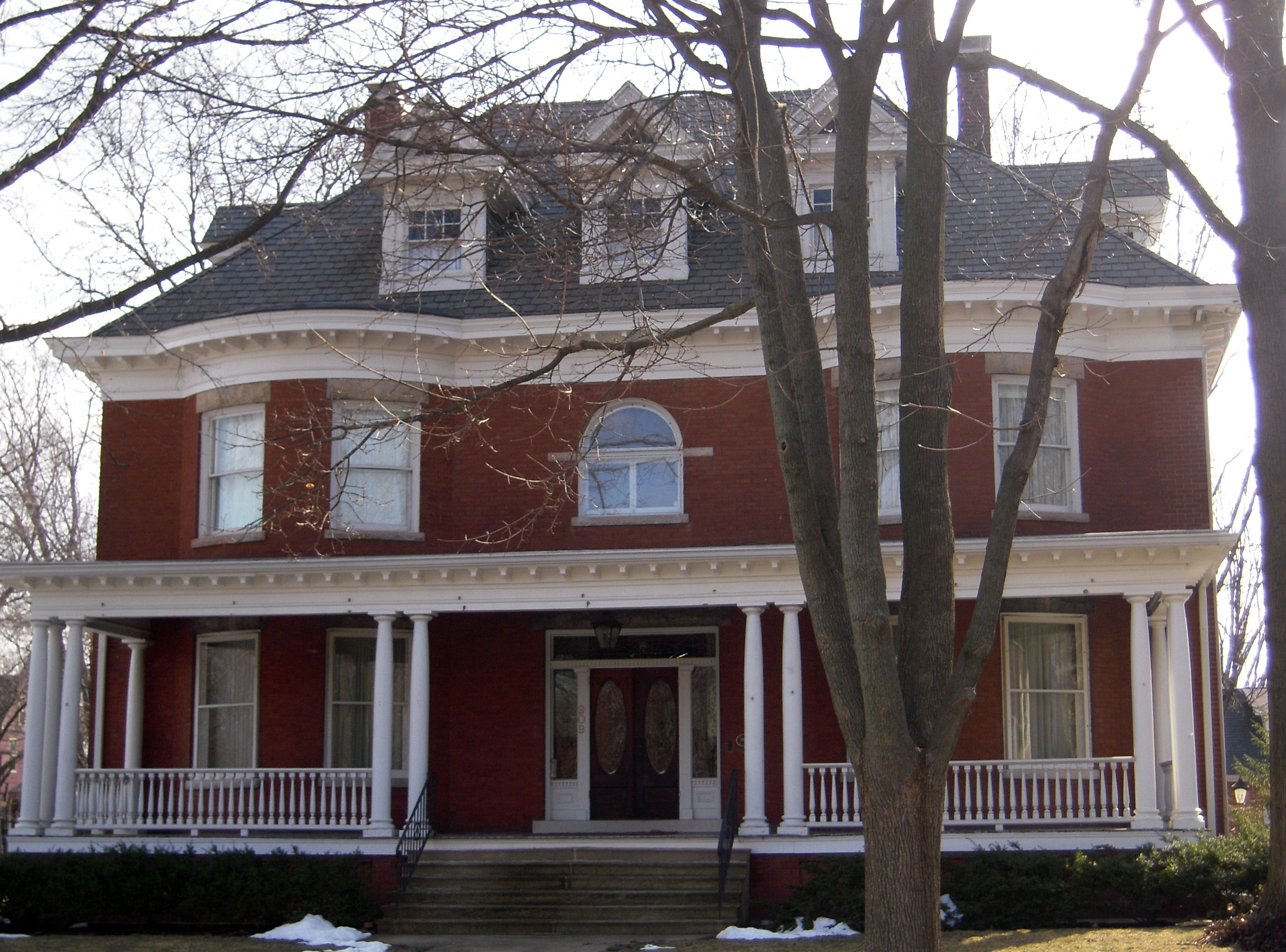 A house in the Franklin Square Historic District